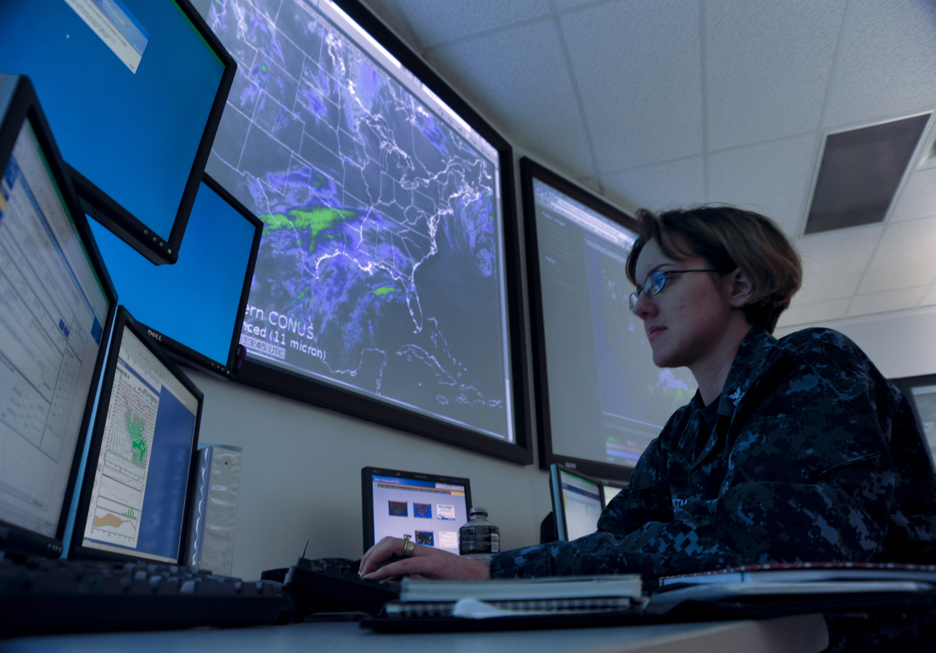 NORFOLK (Feb. 11, 2010) Aerographer's Mate 1st Class Cory Christman prepares weather briefs for pilots at the Naval Aviation Forecast Center at Naval Station Norfolk. The Center provides the most current weather information available to pilots and crew members operating throughout the Hampton Roads area. (U.S. Navy photo by Mass Communication Specialist 2nd Class William Weinert/Released)